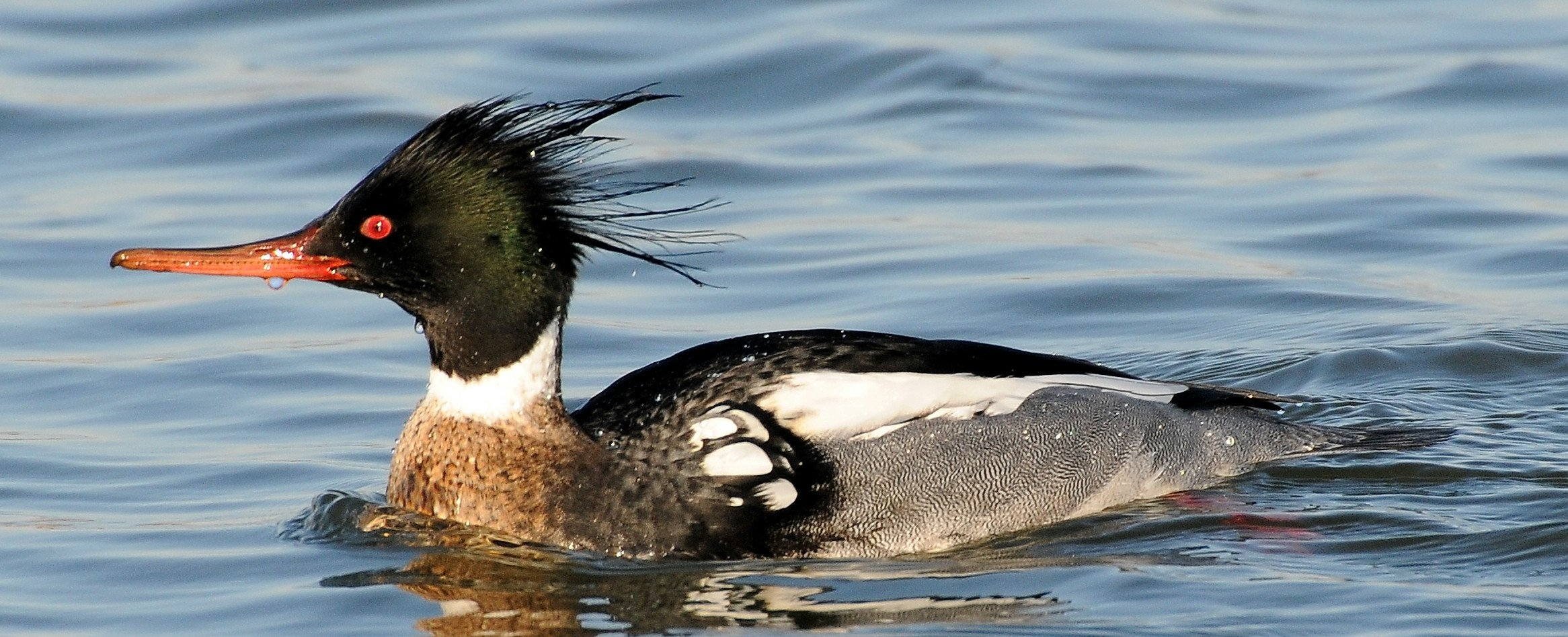 Crop of file in filename